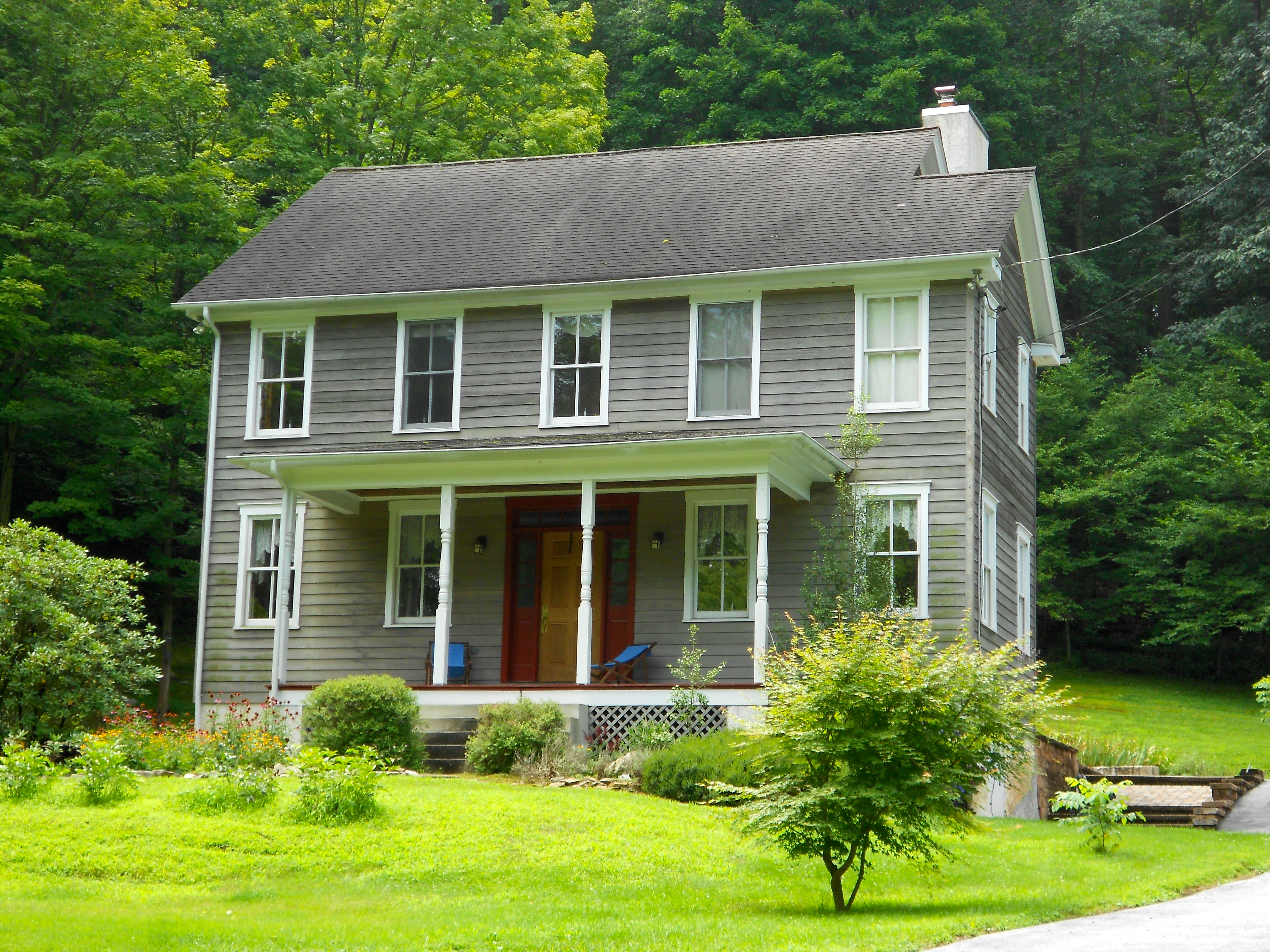 Wilkinson House on the NRHP since September 16, 1985. On Pennsylvania Route 842, just west of the bridge across the Brandywine and just south of the railroad. In Pocopson Township, Chester County. The house has been extensively changed since it was listed on the NRHP - a new roof, with the distinctive cross-gable now gone. A tall shed structure at the rear of the house is gone. New siding and the wooden "quoins" are gone. But the basic window structure is the same, as well as the structure of the porch. A stable has been destroyed but its foundation is in the right place. The configuration of the bridge, railroad, road and river (as well as the stable foundation) identifies this as the unique place.